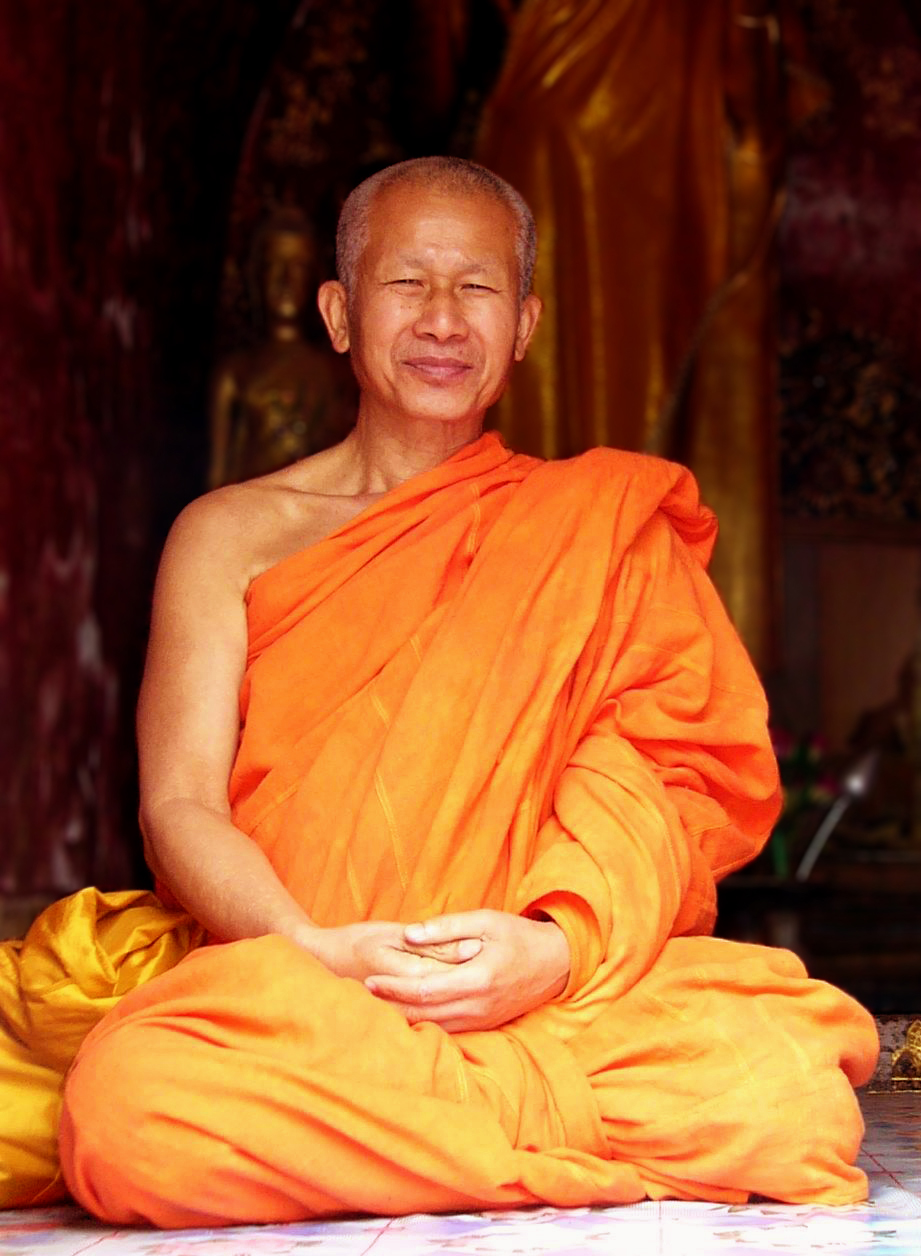 Phra Thepsitthinayaka